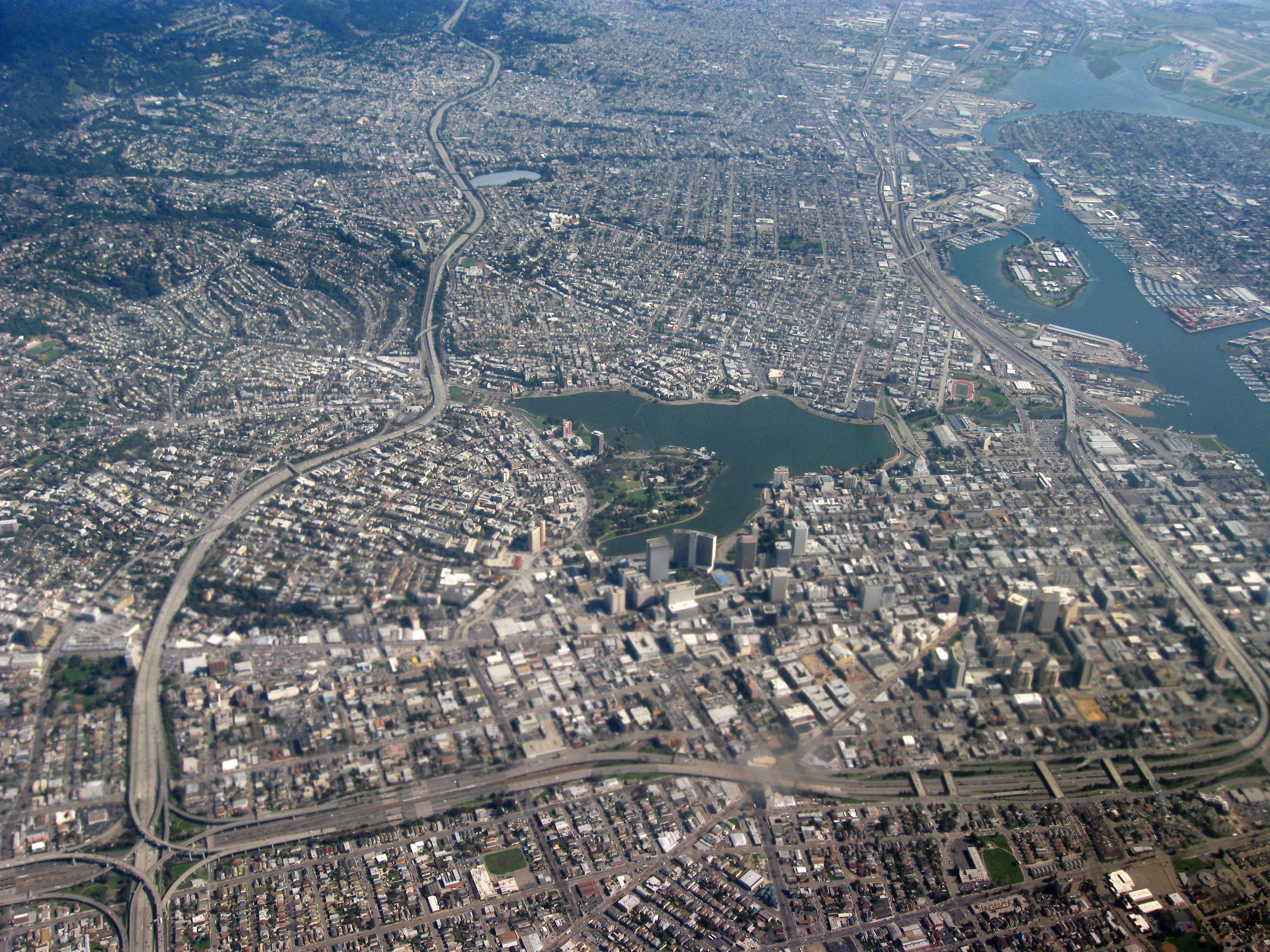 Aerial view of city of Oakland, California. Lakeside Park, Lake Merritt in center, Laney College to the right of that, Downtown Oakland right below the lake, Interstate 580 on left, Interstate 980 on bottom, Oakland Inner Harbor Channel and Government Island in upper right.